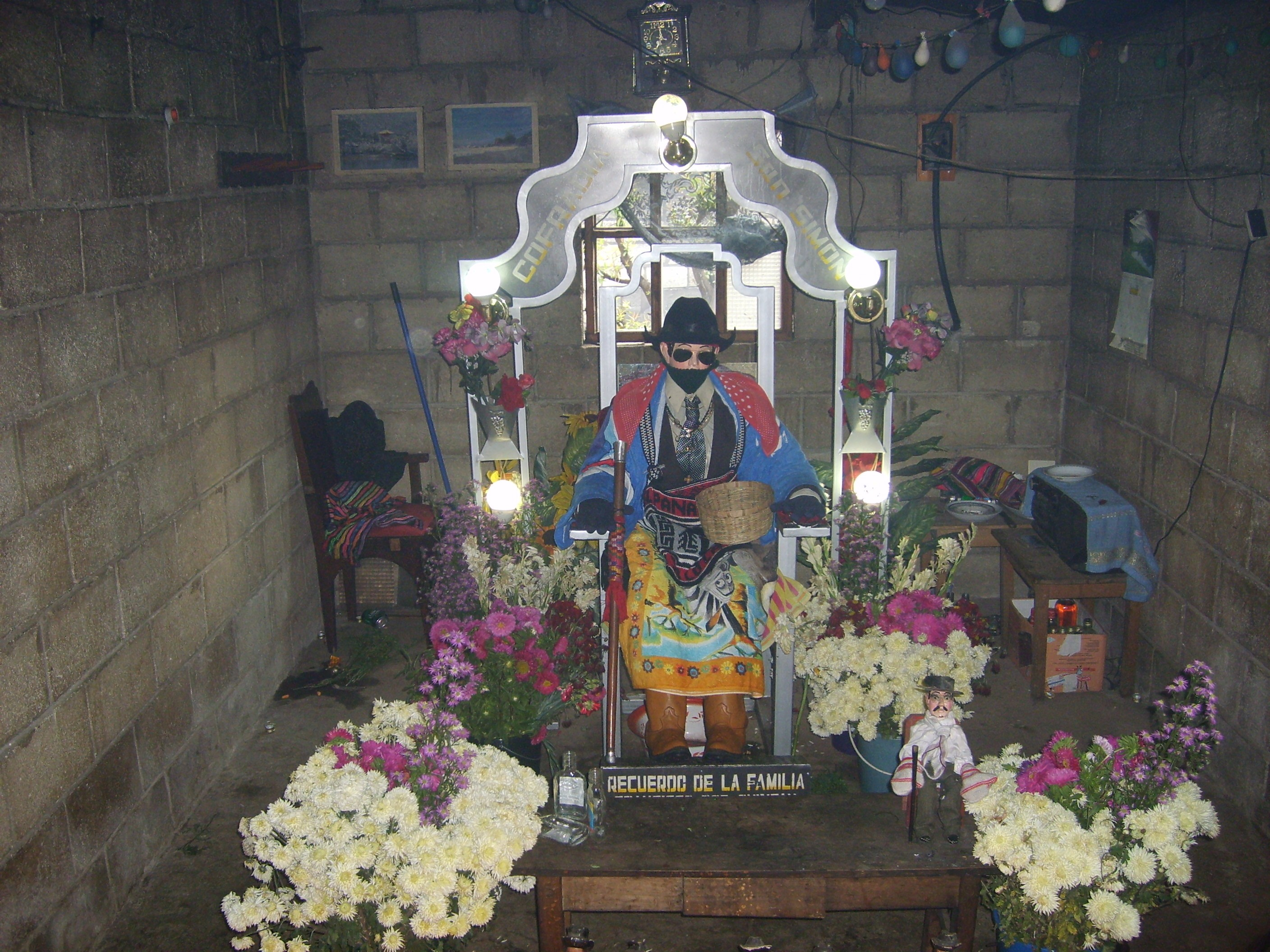 A lifesize doll of San Simón (Maximón), a Mayan god turned Christian saint, a subject of veneration in Zunil, Guatemala. The shrine moves from one private house to another every year on November 1. People come to pray there and leave various offerings - usually alcohol and tobacco. The local family takes care of the doll and the shrine during the year, while charging a nominal fee (e.g. 5 GTQ) to visitors.